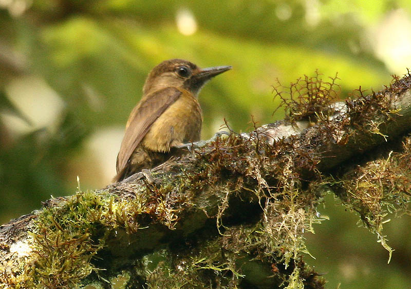 Smoky-brown Woodpecker Picoides fumigatus. A female at Milpe Bird Sanctuary, NW Ecuador.